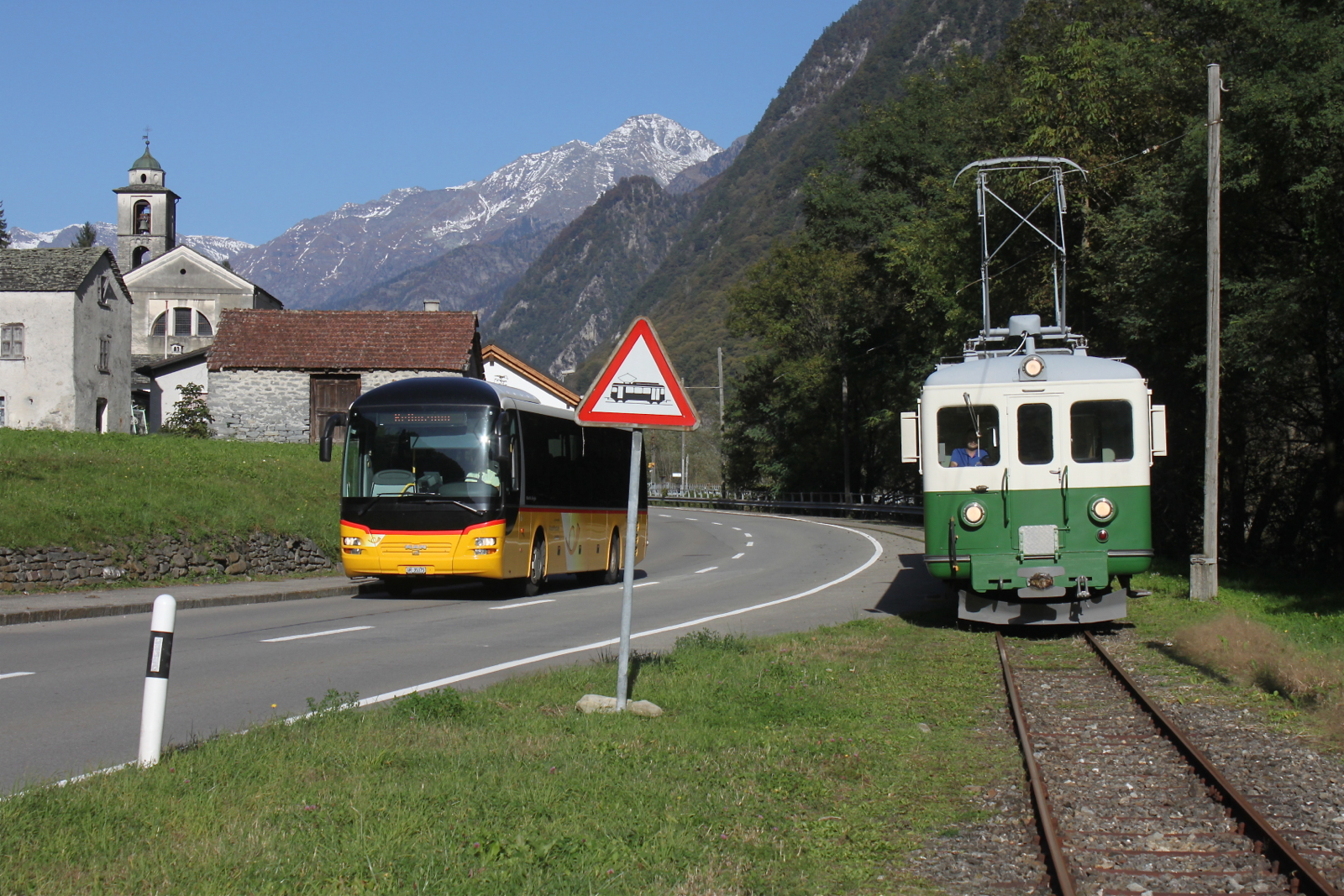 SEFT ABe 4/4 5 (former Biasca-Acquarossa Railway) running from Cama to Castione-Arbedo at Leggia (Switzerland).